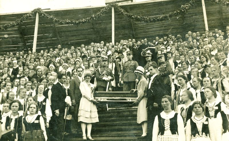 Closing ceremony of a folk art exposition held by Pavasaris organization in Kaunas